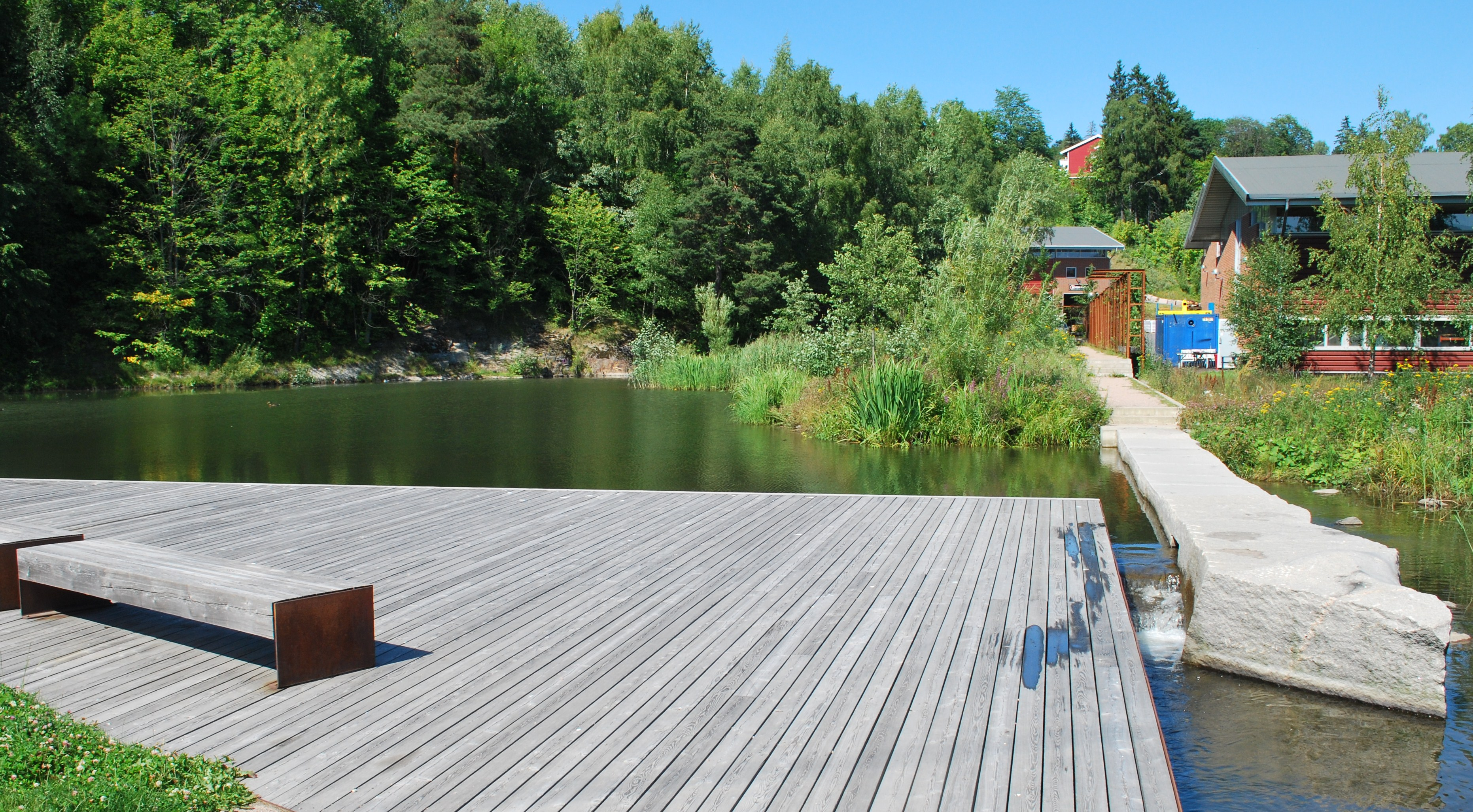 Hølaløkka waterpark, Grorud, Oslo, lower dam